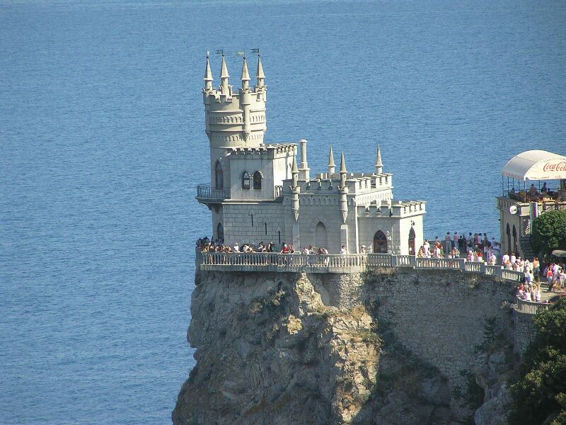 Swallow's Nest